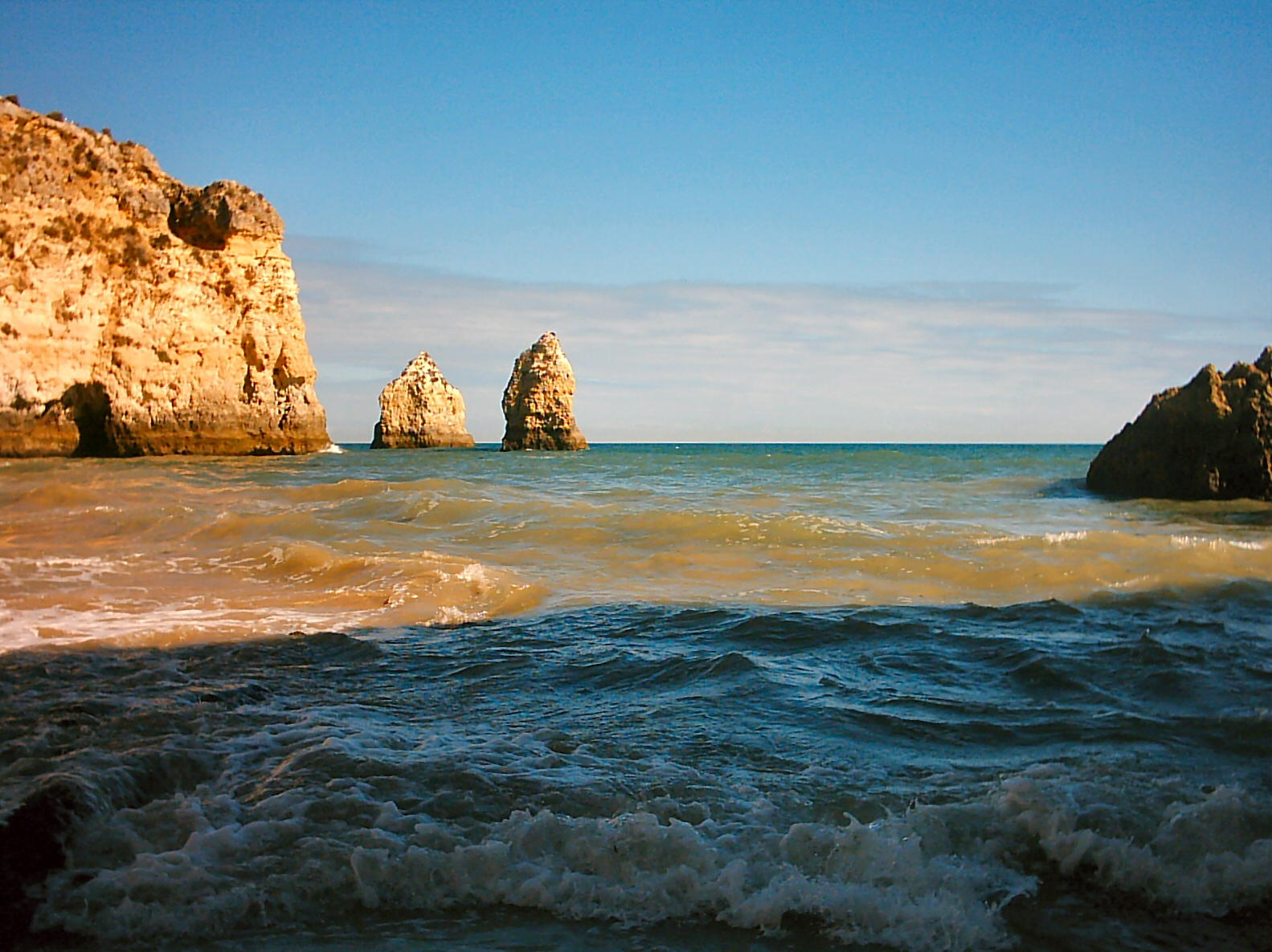 Praia dos 3 Irmãos,(Three Brother's Beach) Portimão, Algarve, Portugal.